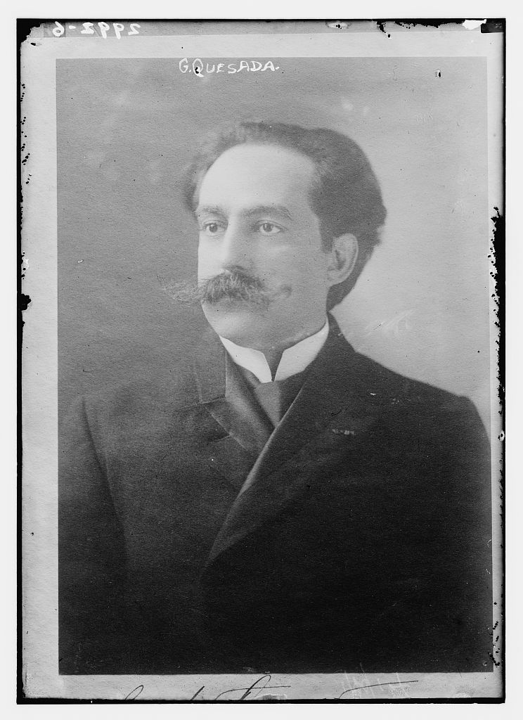 Bain News Service, publisher. Gonzalo de Quesada y Aróstegui [between ca. 1910 and ca. 1915] 1 negative : glass ; 5 x 7 in. or smaller. Notes: Title from unverified data provided by the Bain News Service on the negatives or caption cards. Forms part of: George Grantham Bain Collection (Library of Congress). Format: Glass negatives. Repository: Library of Congress, Prints and Photographs Division, Washington, D.C. 20540 USA, General information about the Bain Collection is available at Persistent URL: Call Number: LC-B2- 2992-6